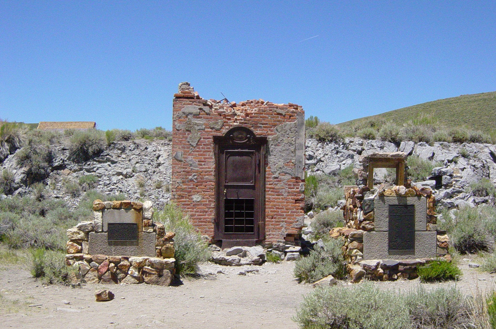 Ruins of bank in Bodie, California